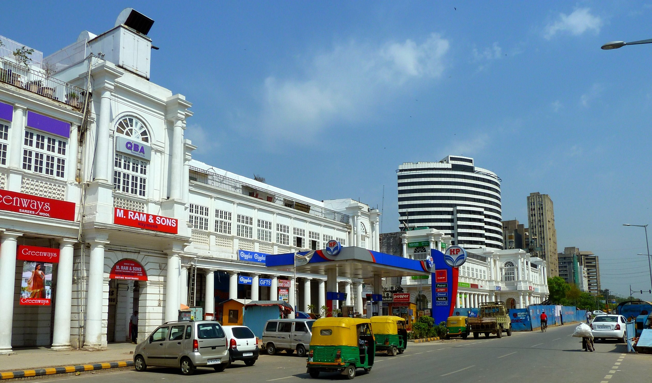 Connaught Place, New Delhi, an upscale shopping area in India's capital.